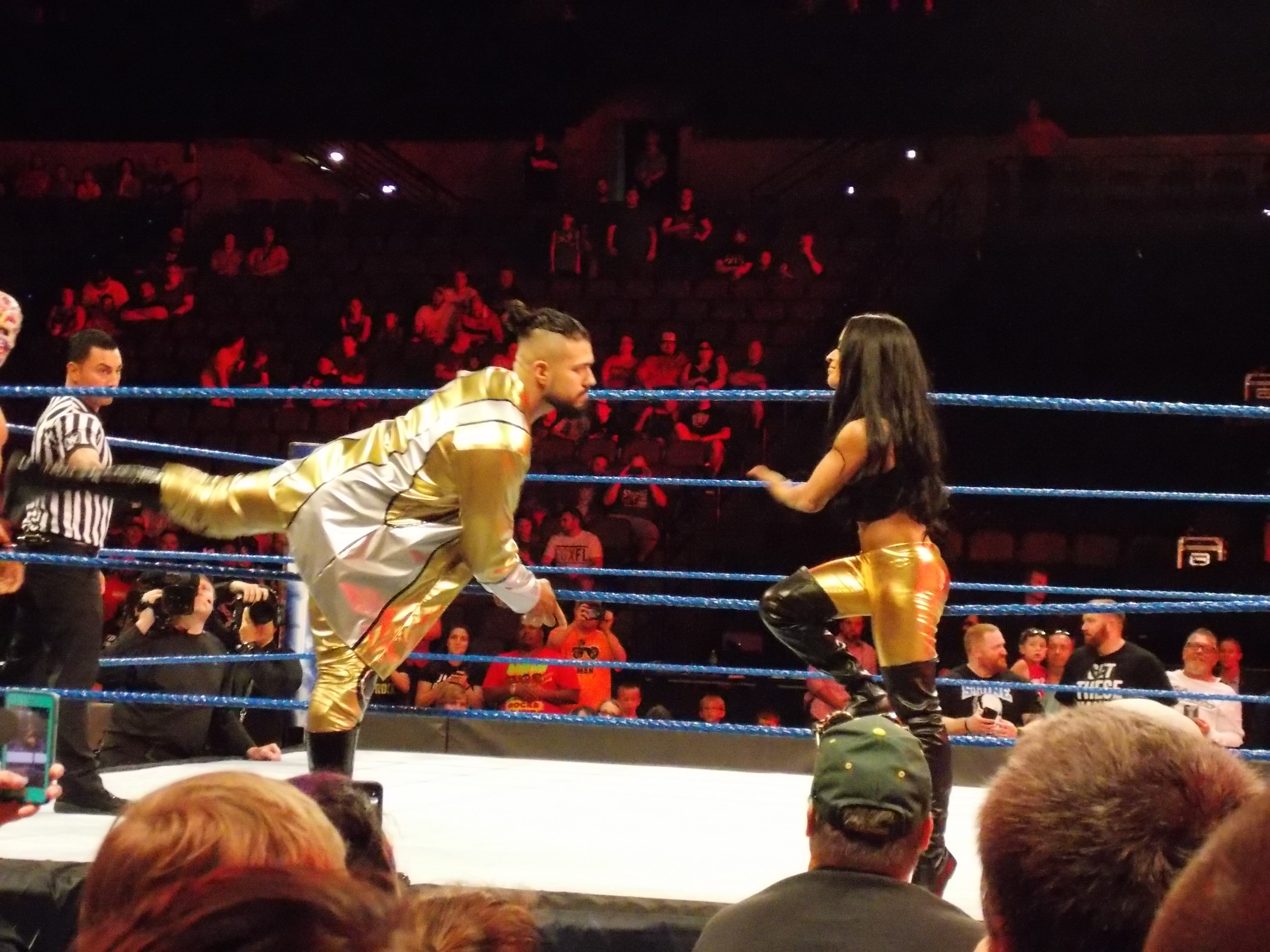 Andrade Cien Almas with Zelina Vega prior to a dark match at WWE SmackDown Live in Omaha, Nebraska, USA on Tuesday, July 3, 2018